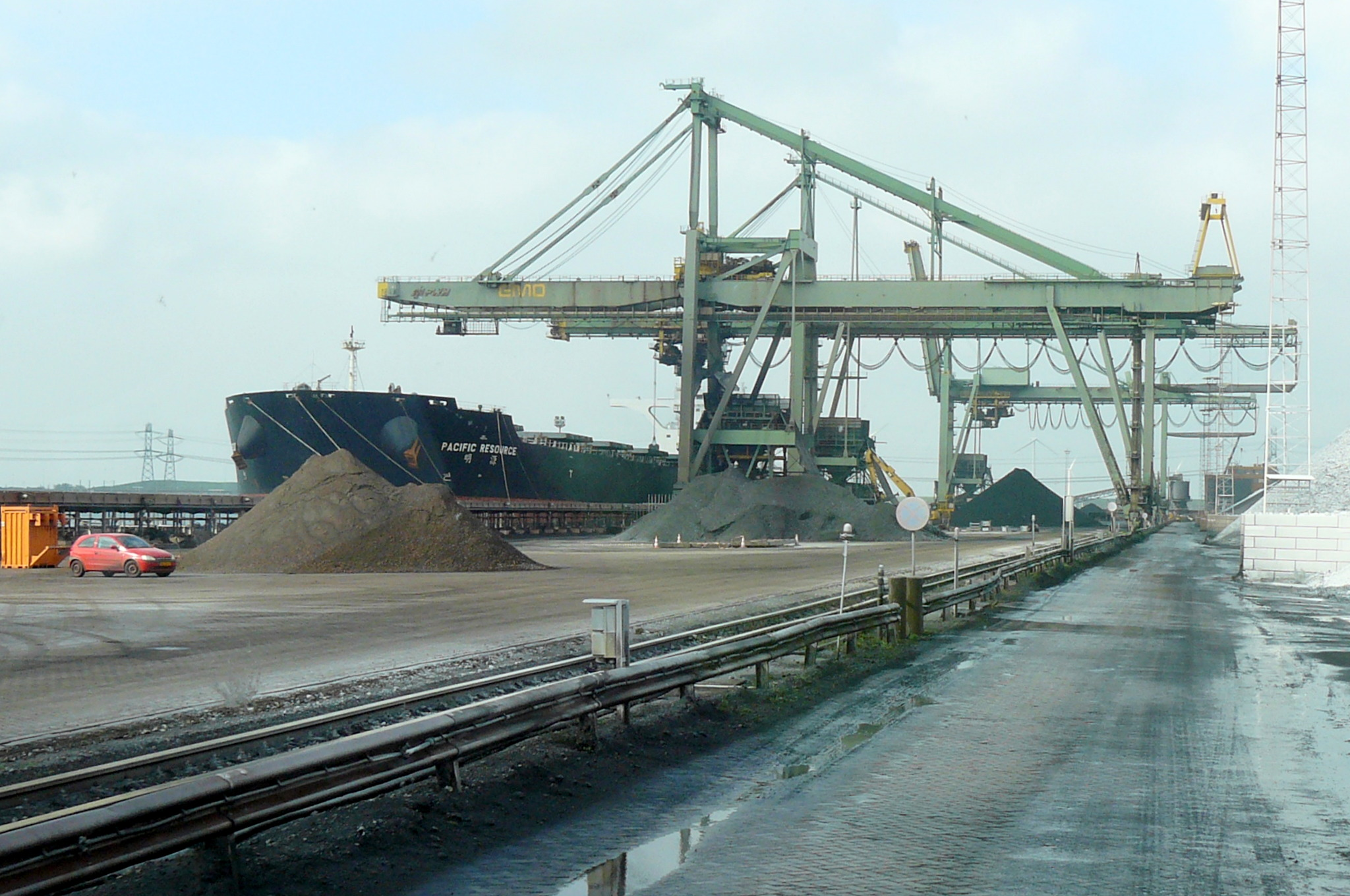 Unloading of Pacific Resource at EMO in Rotterdam